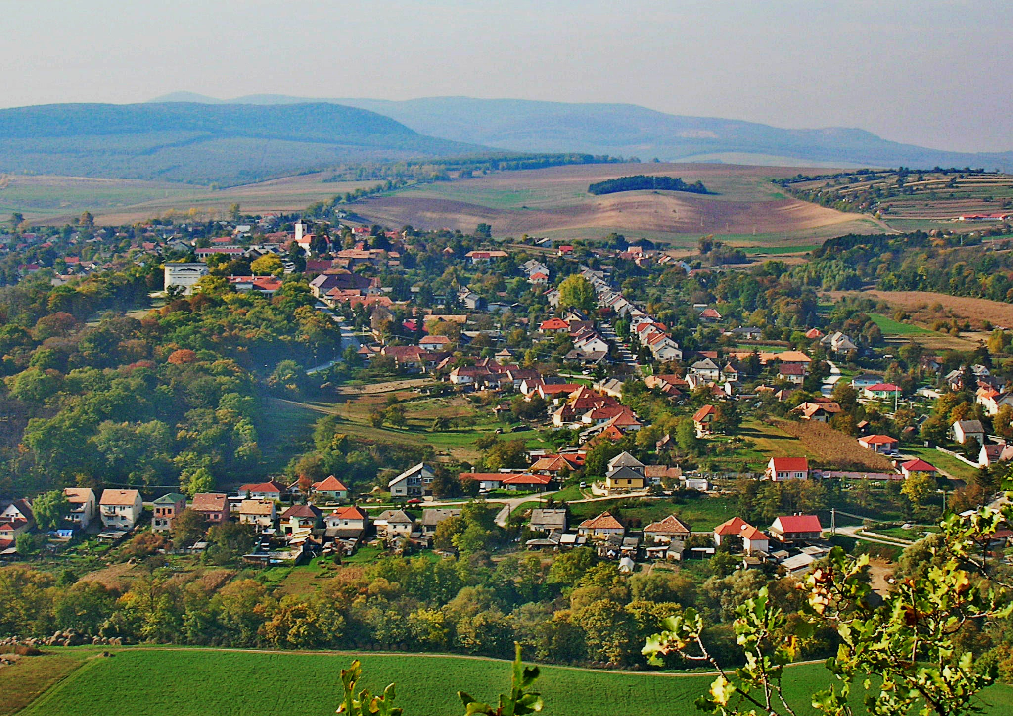 Panorama of Bajna, Hungary